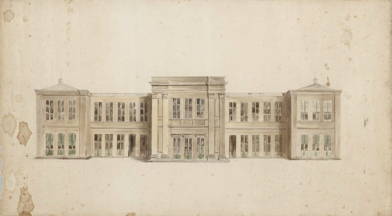 Ontwerp gevel Nederlandse bank, 1860